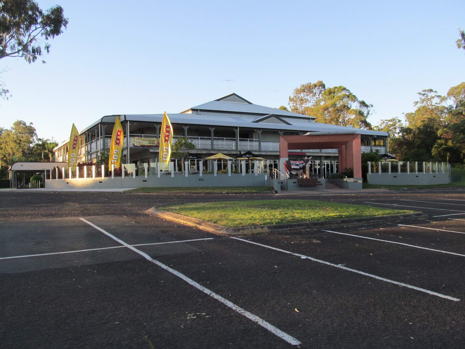 Alexandra Hills Hotel on Finucane Road, Alexandra Hills, Queensland